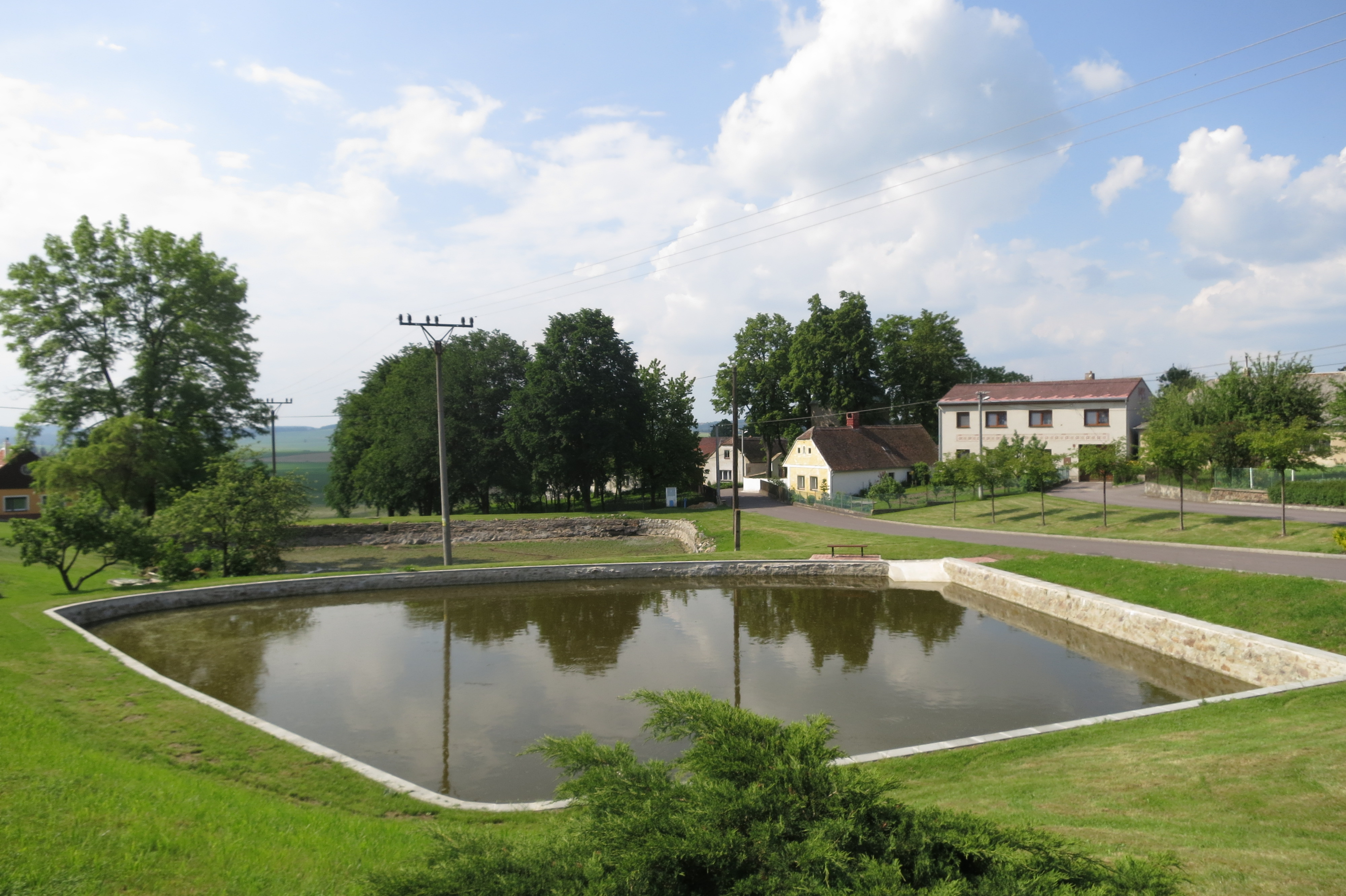 Center of Štěpkov, Třebíč District.